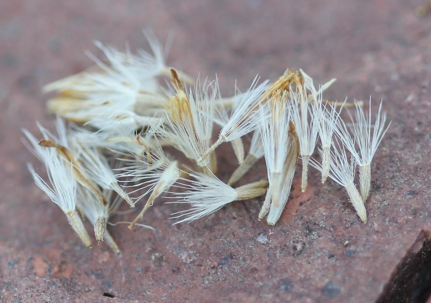 Fruits of Solidago simplex ssp. randii var. ontarioensis from Gros Cap, Prince Township, Sault Ste. Marie, Ontario, Canada